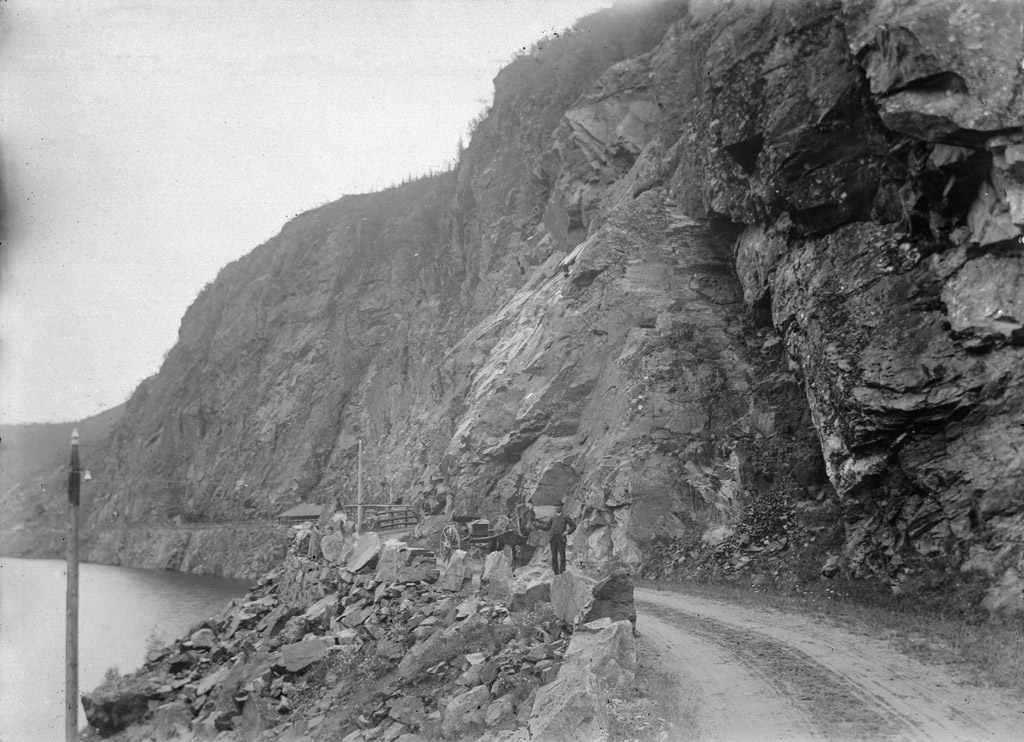 Kvamskleiva at Lake Vangsmjøsa in Vang in Valdres area.